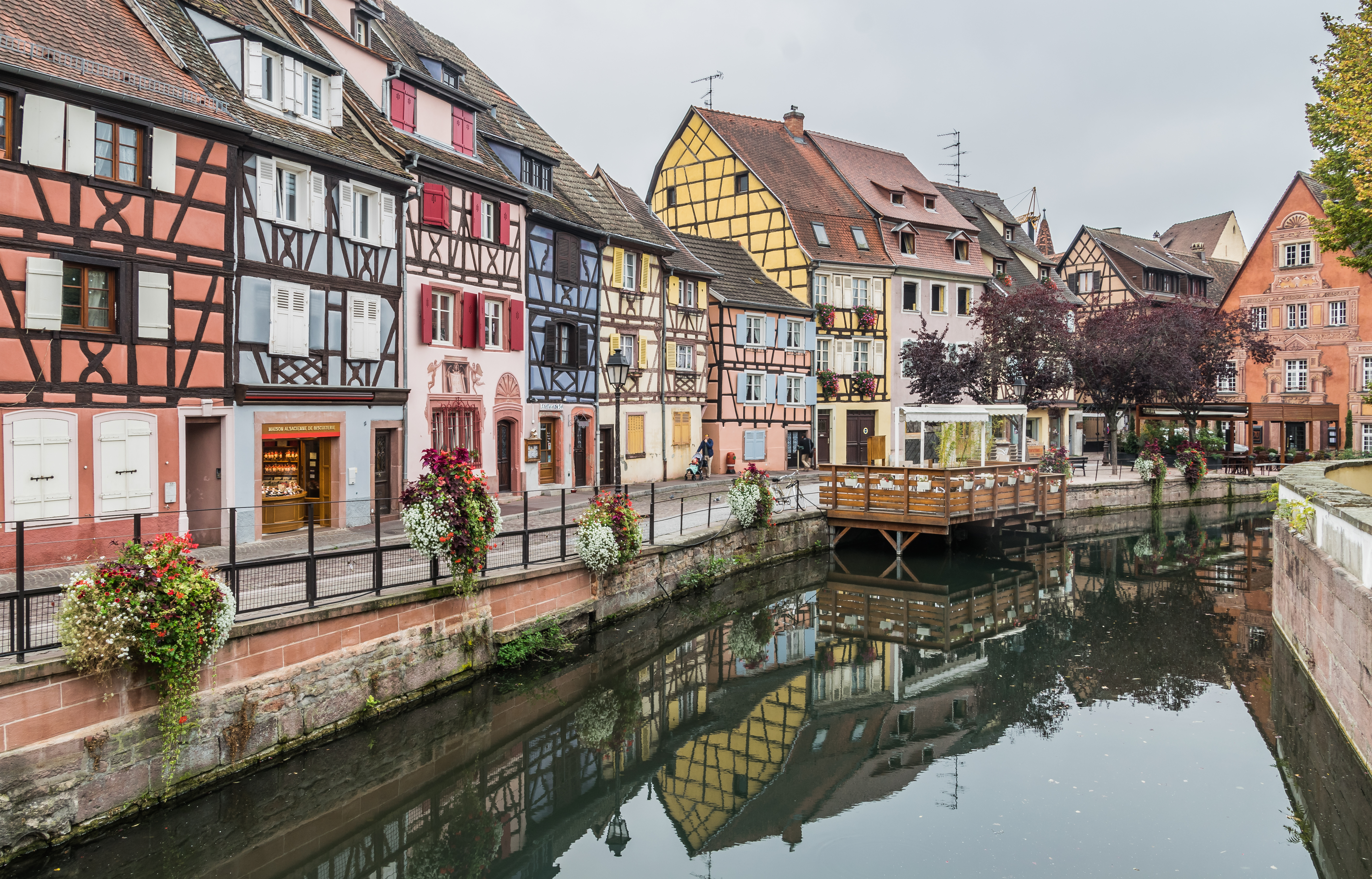 Little Venice in Colmar, Haut-Rhin, France